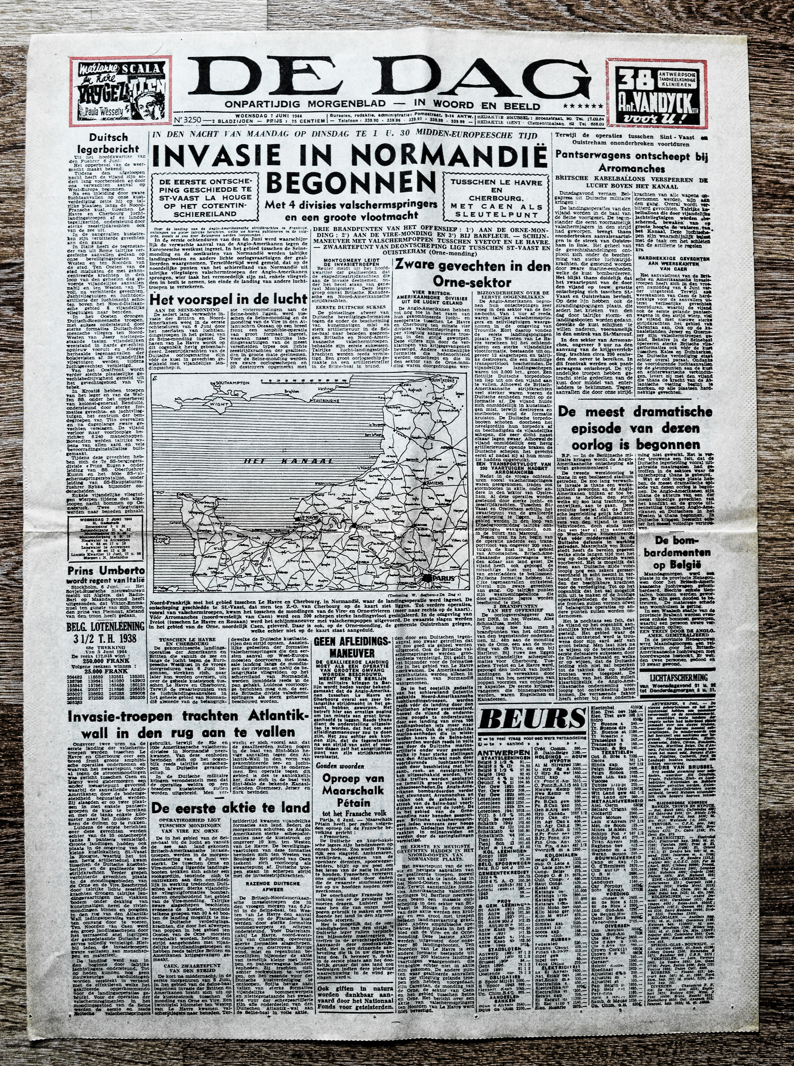 Frontpage Of Belgian newspaper "The Day" June 7 1944 With headline "Invasion In Normandy began"